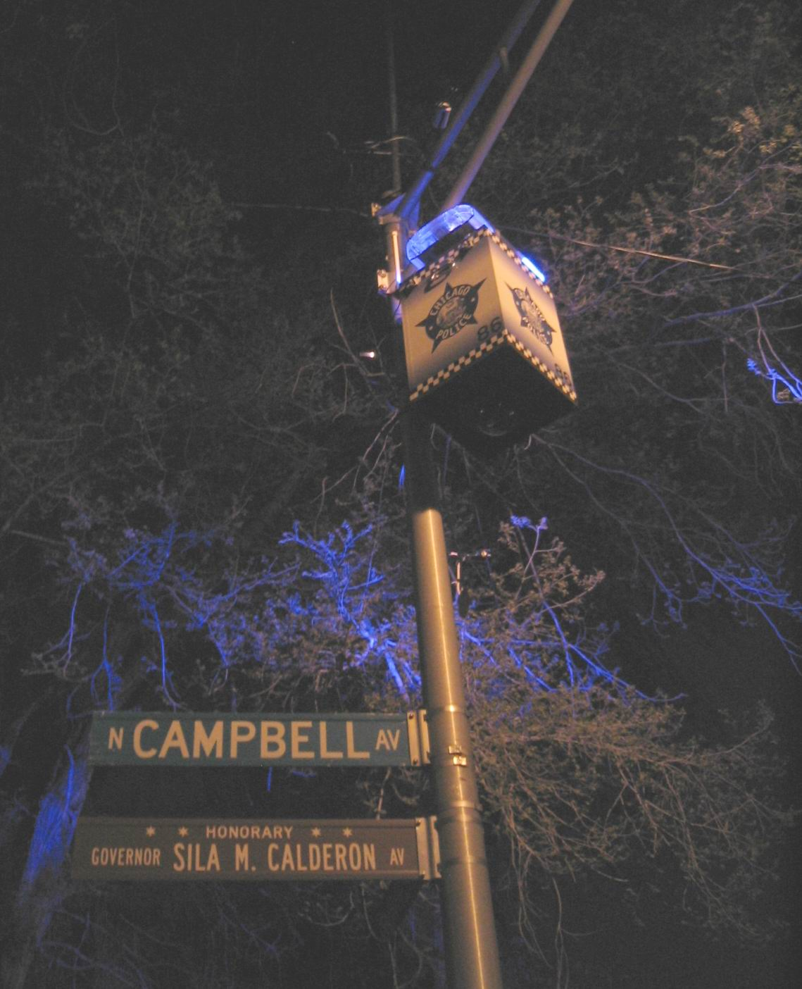 Chicago Police Camera